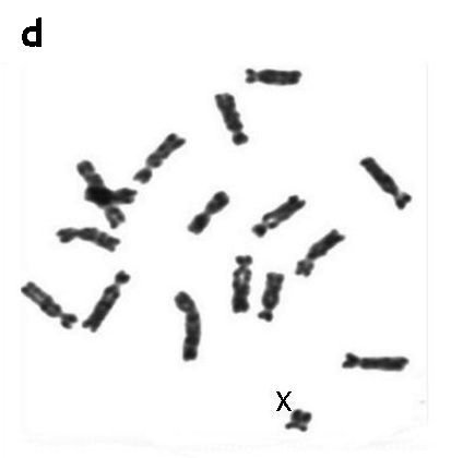 Metaphase spread of the Transcaucasian mole vole female (Ellobius lutescens, 2n = 17, X0 in both sexes)